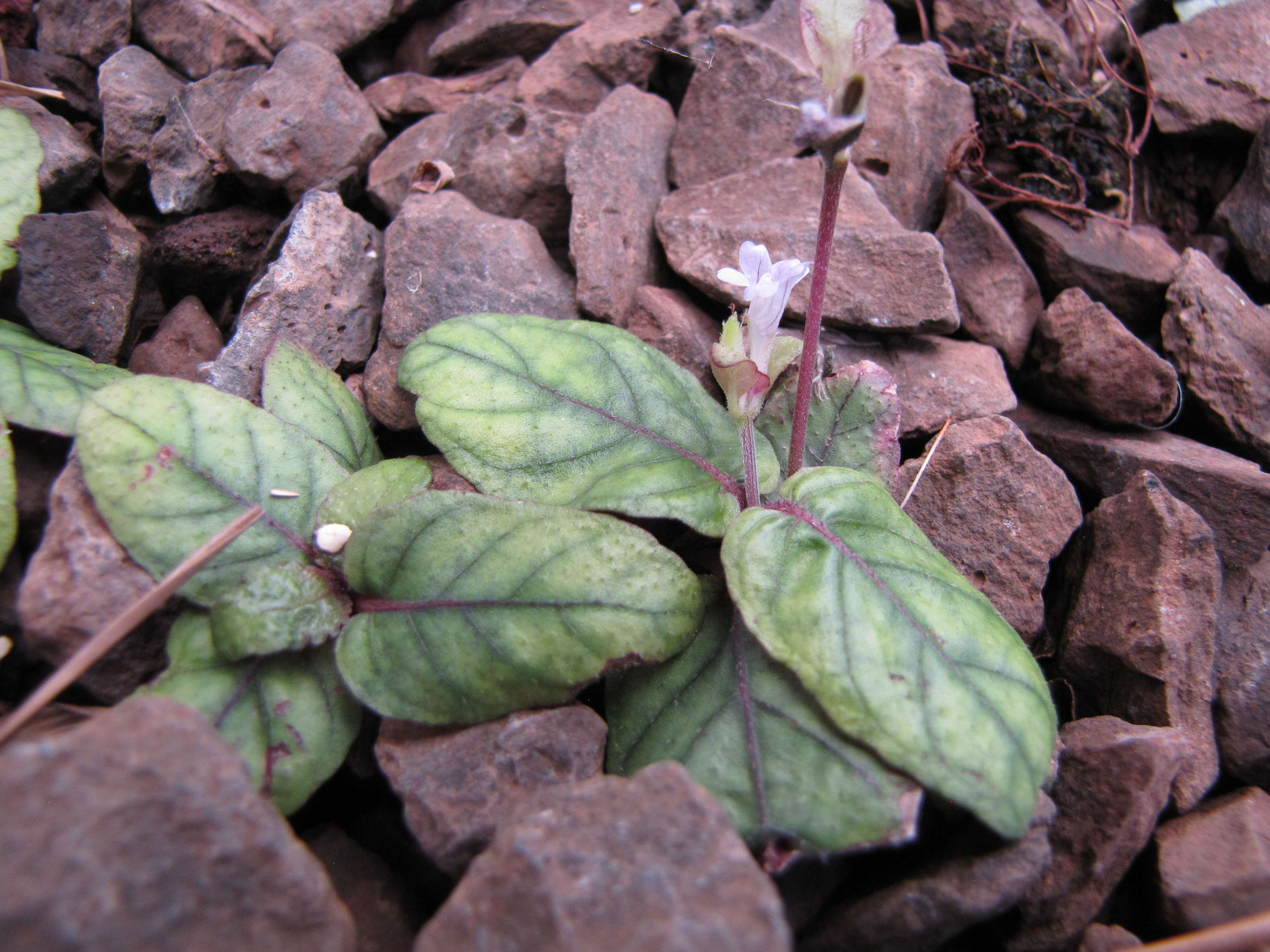 Hemigraphis reptans (Red flame) Flowering habit at Kealia Pond, Maui, Hawaii. July 03, 2013 #130703-5540 Image Use Policy